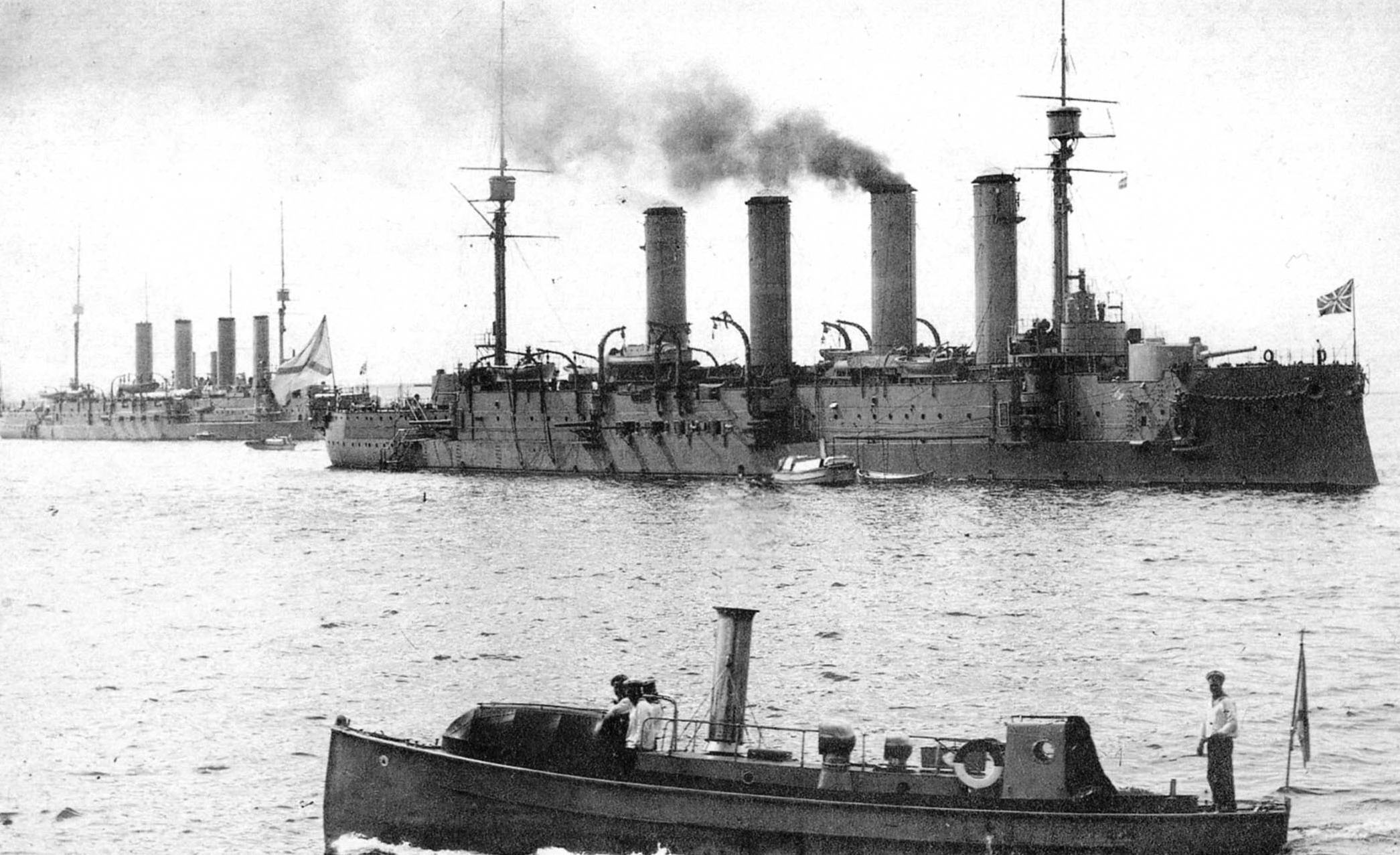 Imperial Russian armoured cruisers Bayan and Admiral Makarov, 1912-1914.